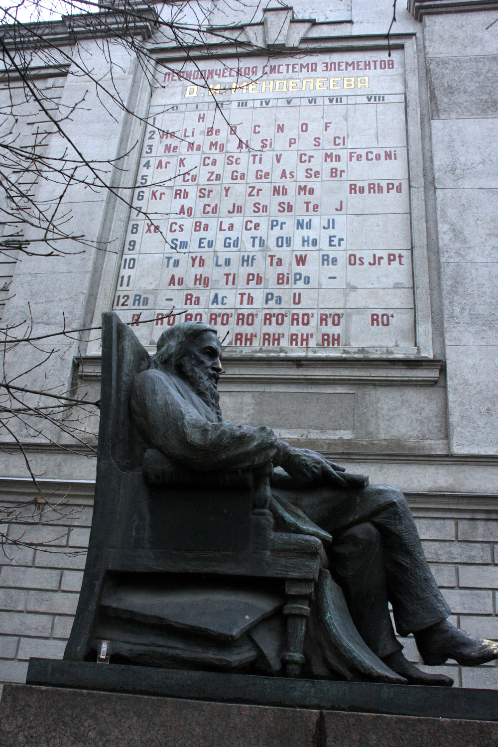 statue d'I. Ginzburg (1932), mosaïque de V. Frolov (1934)